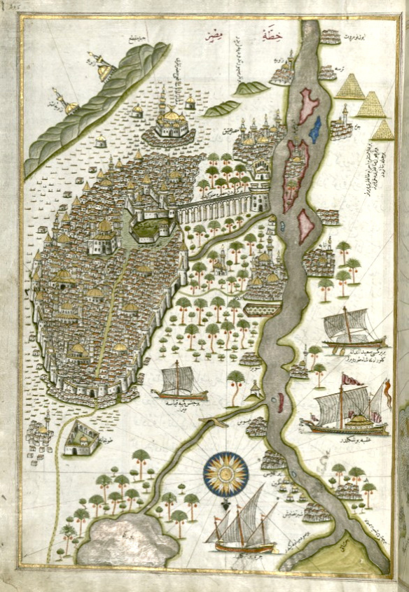 Nile-Cairo-Giza Map by Piri Reis, 16th century